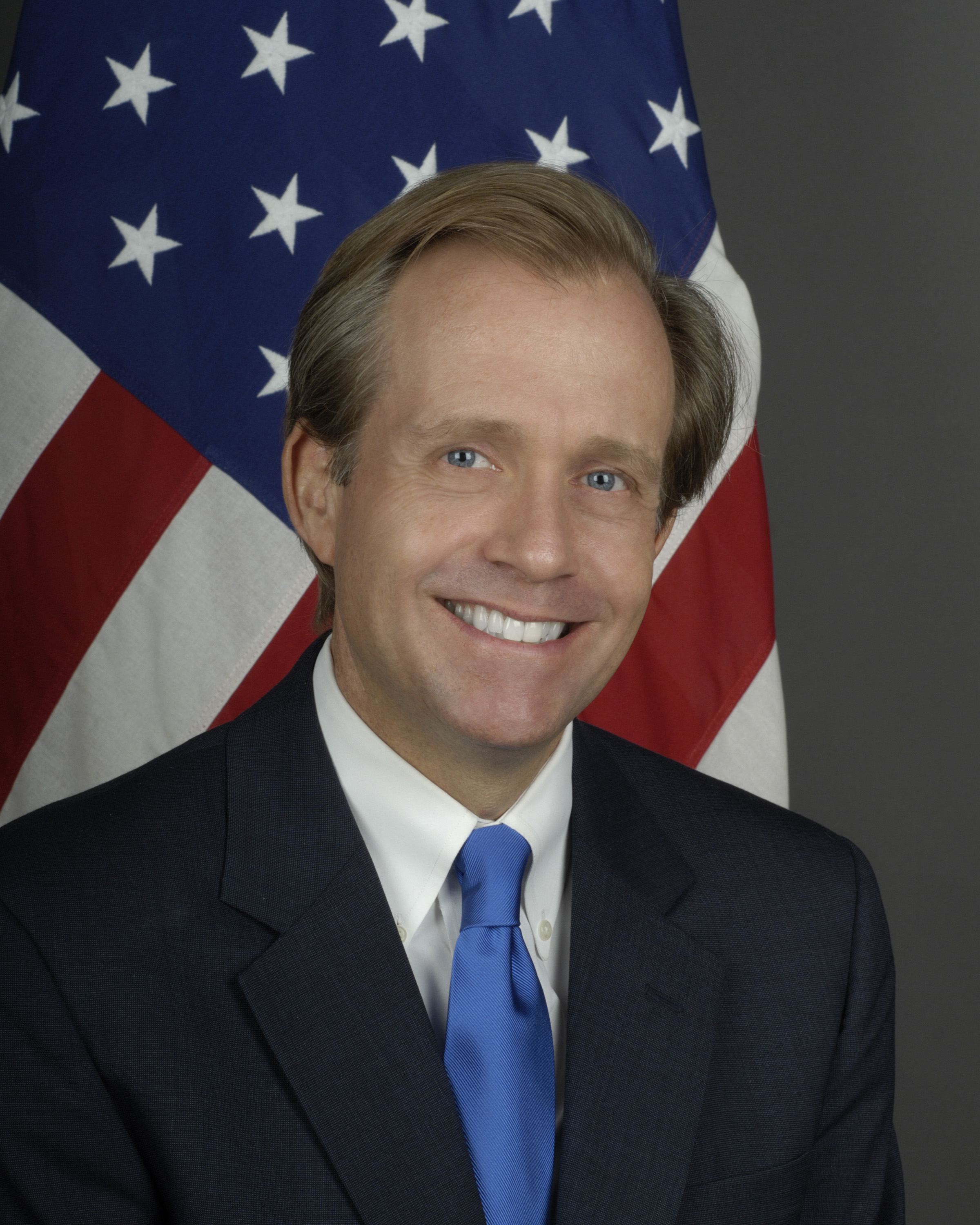 Lewis Lukens, US diplomat. US ambassador to Senegal (2011-2014), US Deputy Chief of Mission to UK (2016-).